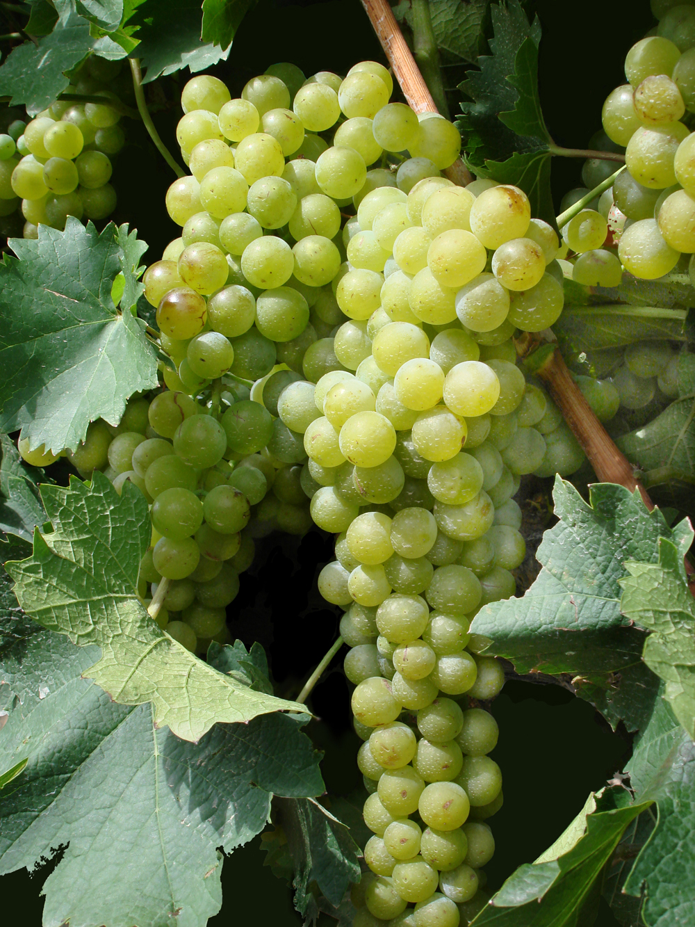 Wine grapes grown in New Mexico.